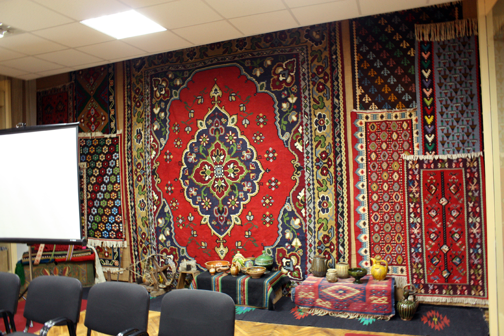 Chiprovtsi capets collection in Montana (Bulgaria) History Museum